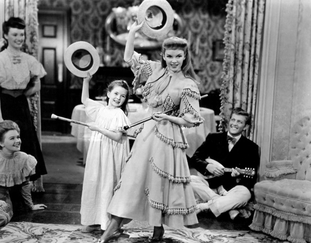 Promotional still from the 1944 film Meet Me in St. Louis, starring Judy Garland with Margaret O'Brien. Seated on right is Henry H. Daniels Jr.